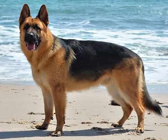 New version nº 1. Adult male German shepherd dog standing. Original